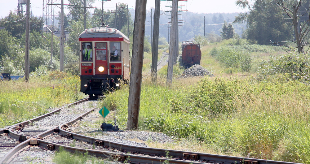 Cloverdale Station, in Surrey BC. 130728-66